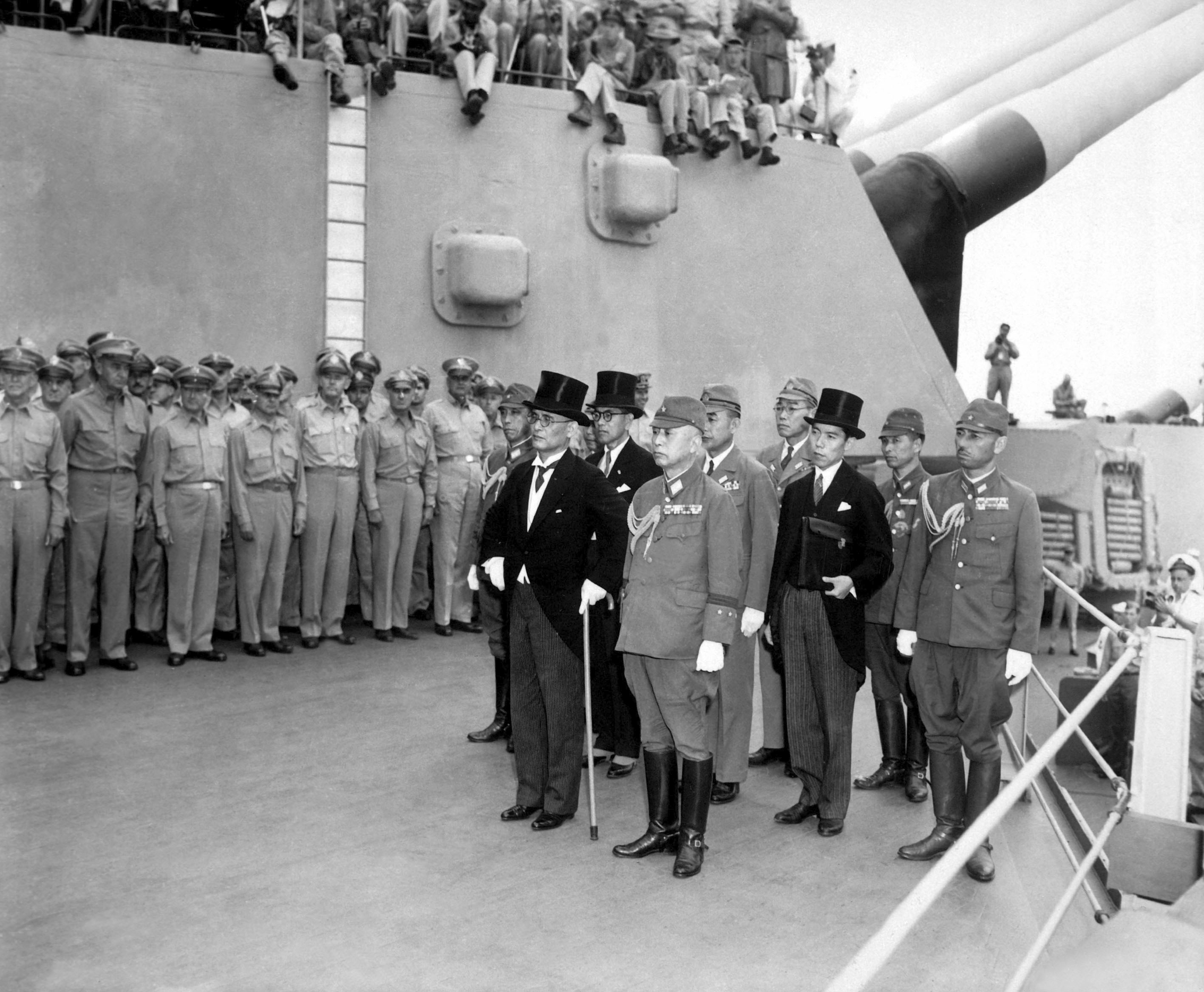 Japanese surrender signatories arrive aboard the USS MISSOURI in Tokyo Bay to participate in surrender ceremonies. September 2, 1945. (Army) NARA FILE #: 111-SC-210626 WAR & CONFLICT BOOK #: 1362